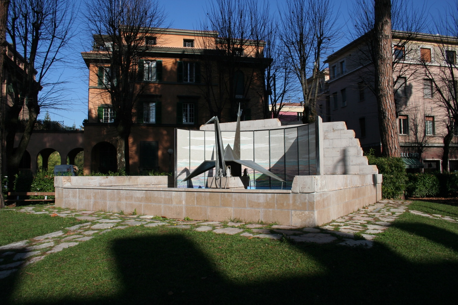 Fountain celebrating the twinning with Ito (Japan) - Rieti (Lazio, Italy)